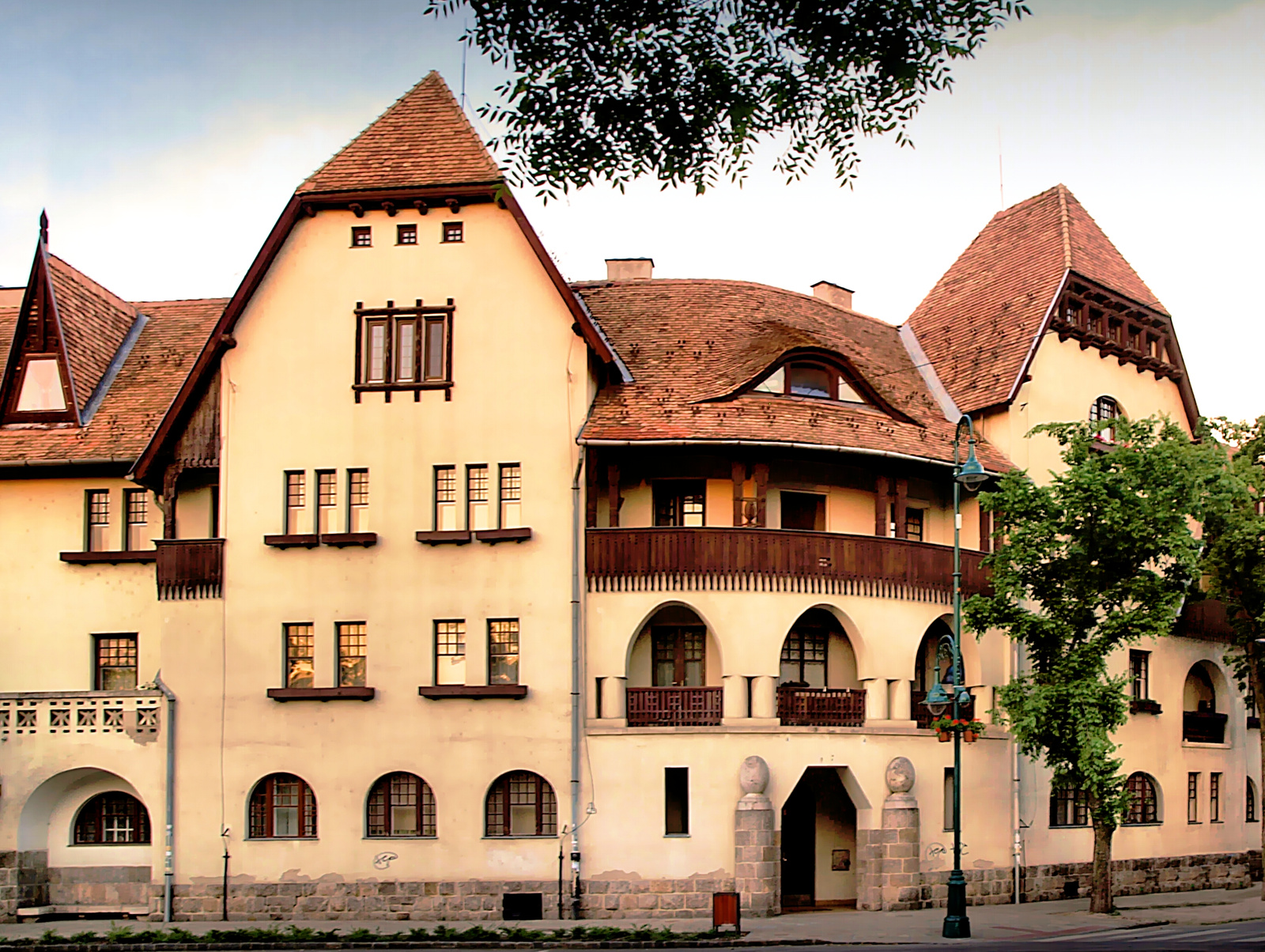 Károly Kós Square 4 (Eberling-Schodits house) in Budapest